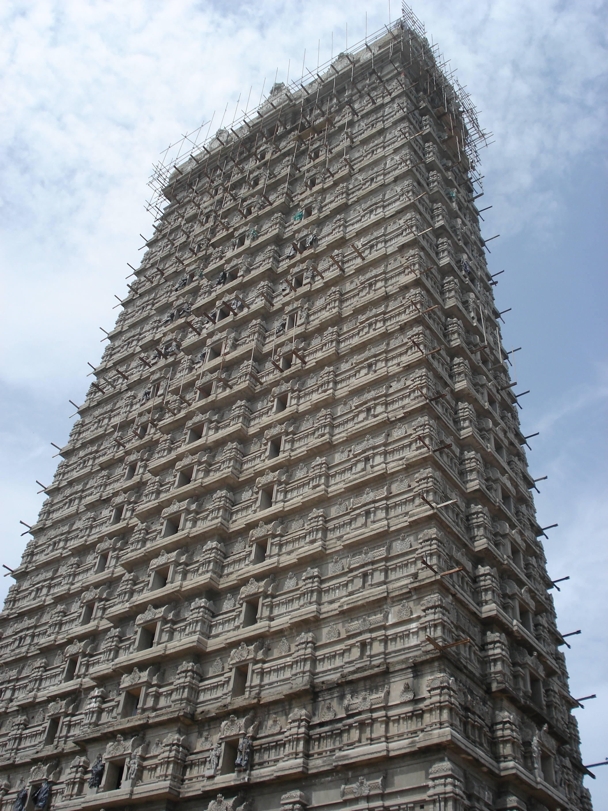 The gopuram of the Murudeshwara temple in Karnataka, claimed to be the tallest in the world at 249 feet, under construction.